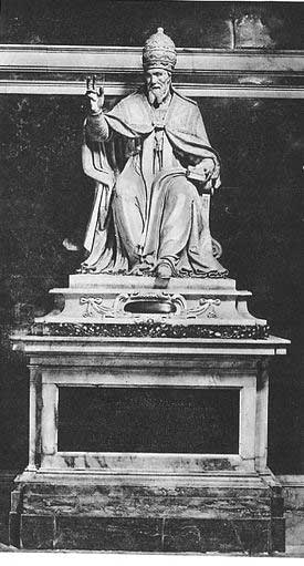 Tomb of pope Urbanus VII in Rome, Basilica Santa Maria sopra Minerva